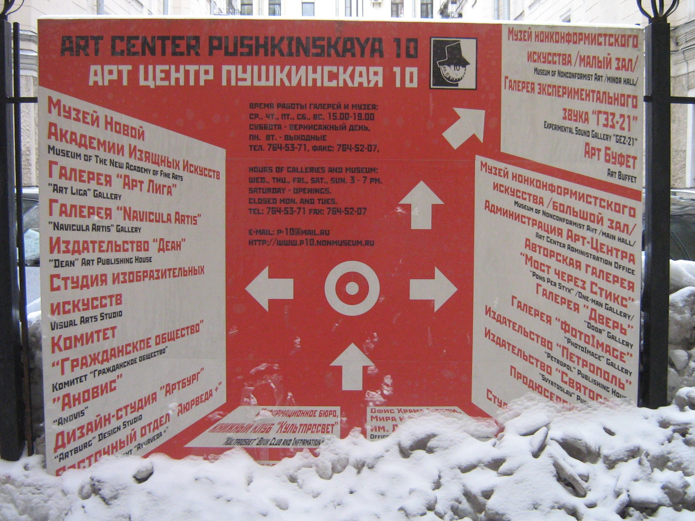 Saint Petersburg (Russia), Tsentralny District, Art-Center 'Pushkinskaya, 10'